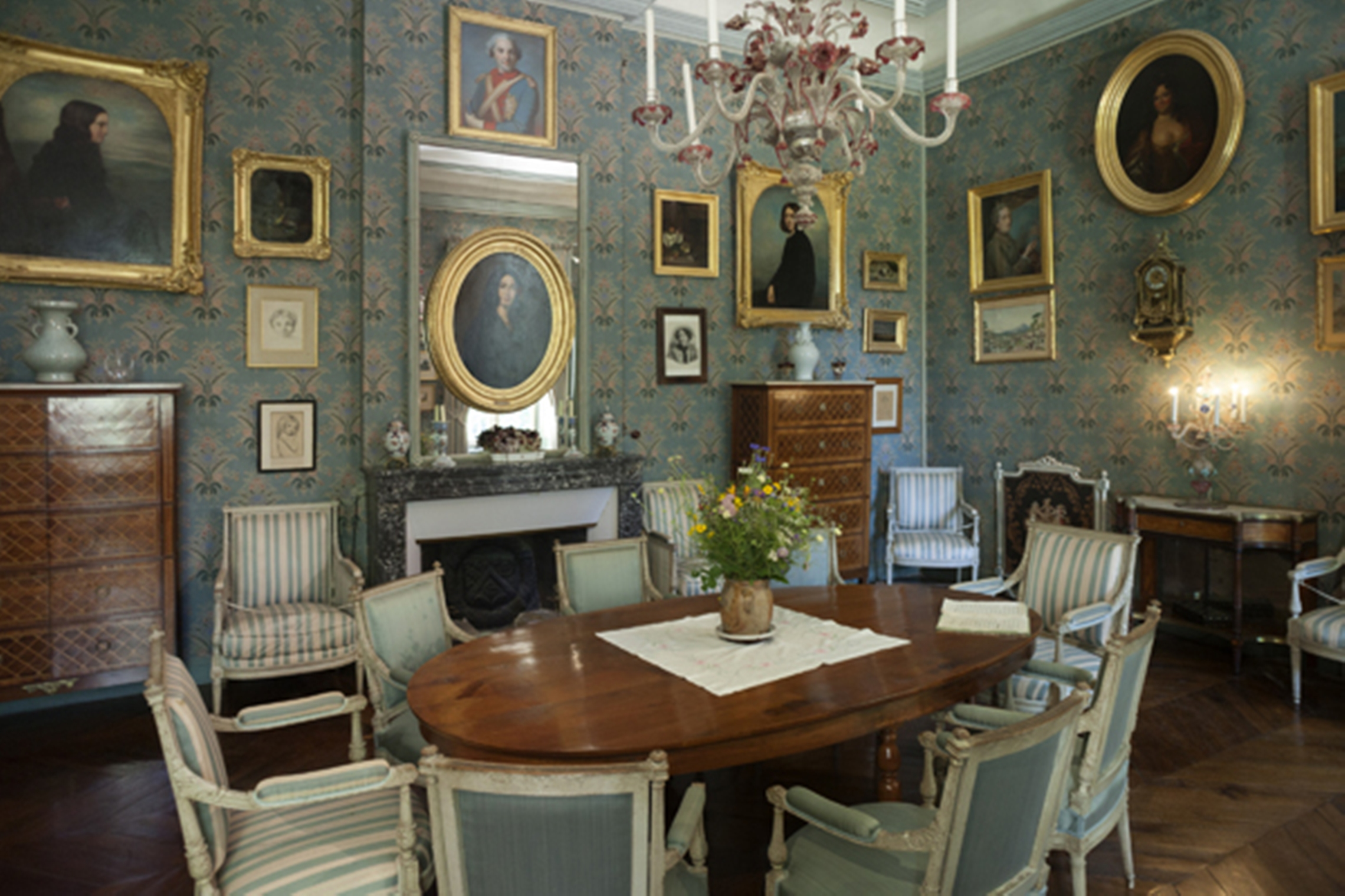 Salon of George Sand at the domain of Nohant, in the Indre Department of France.